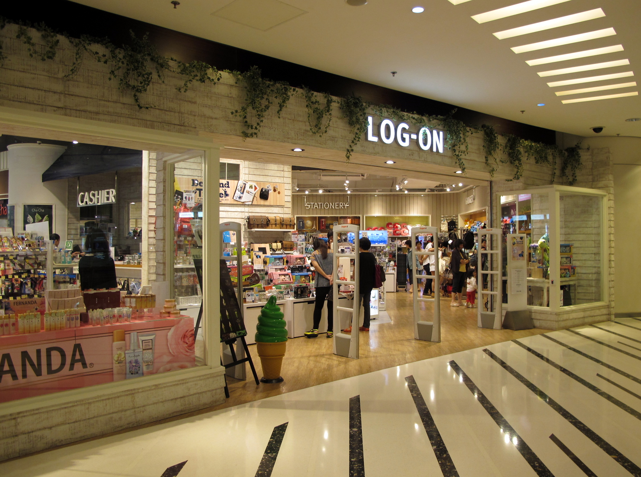 LOG-ON in Maritime Square, Tsing Yi